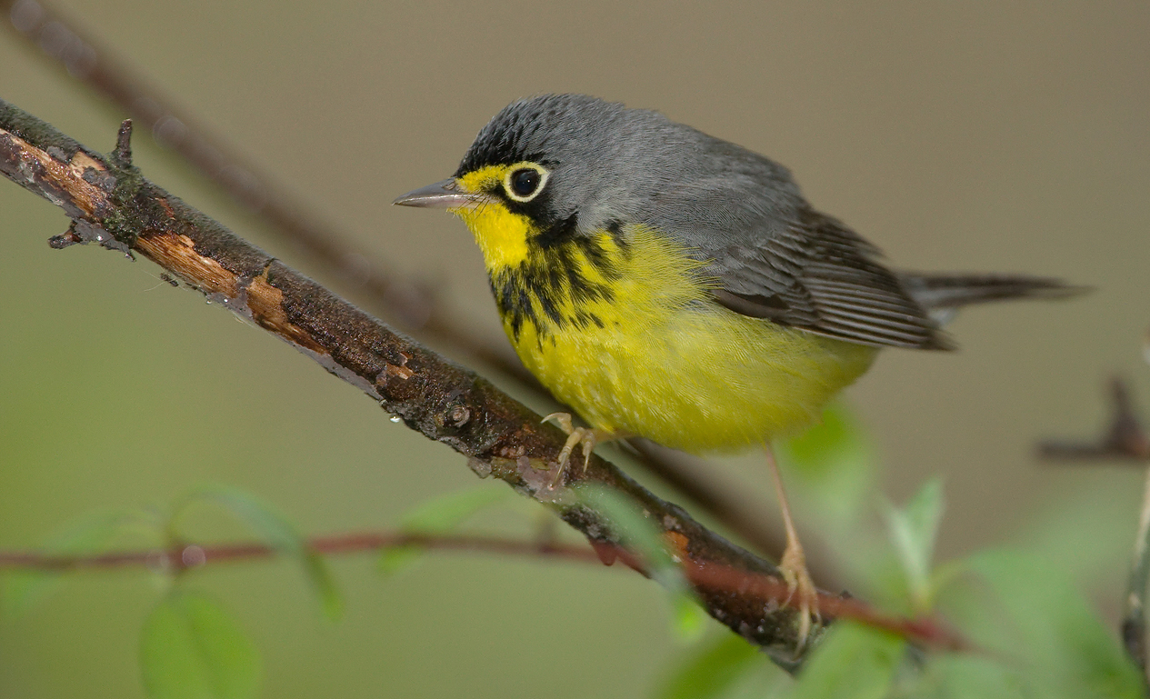 Canada warbler